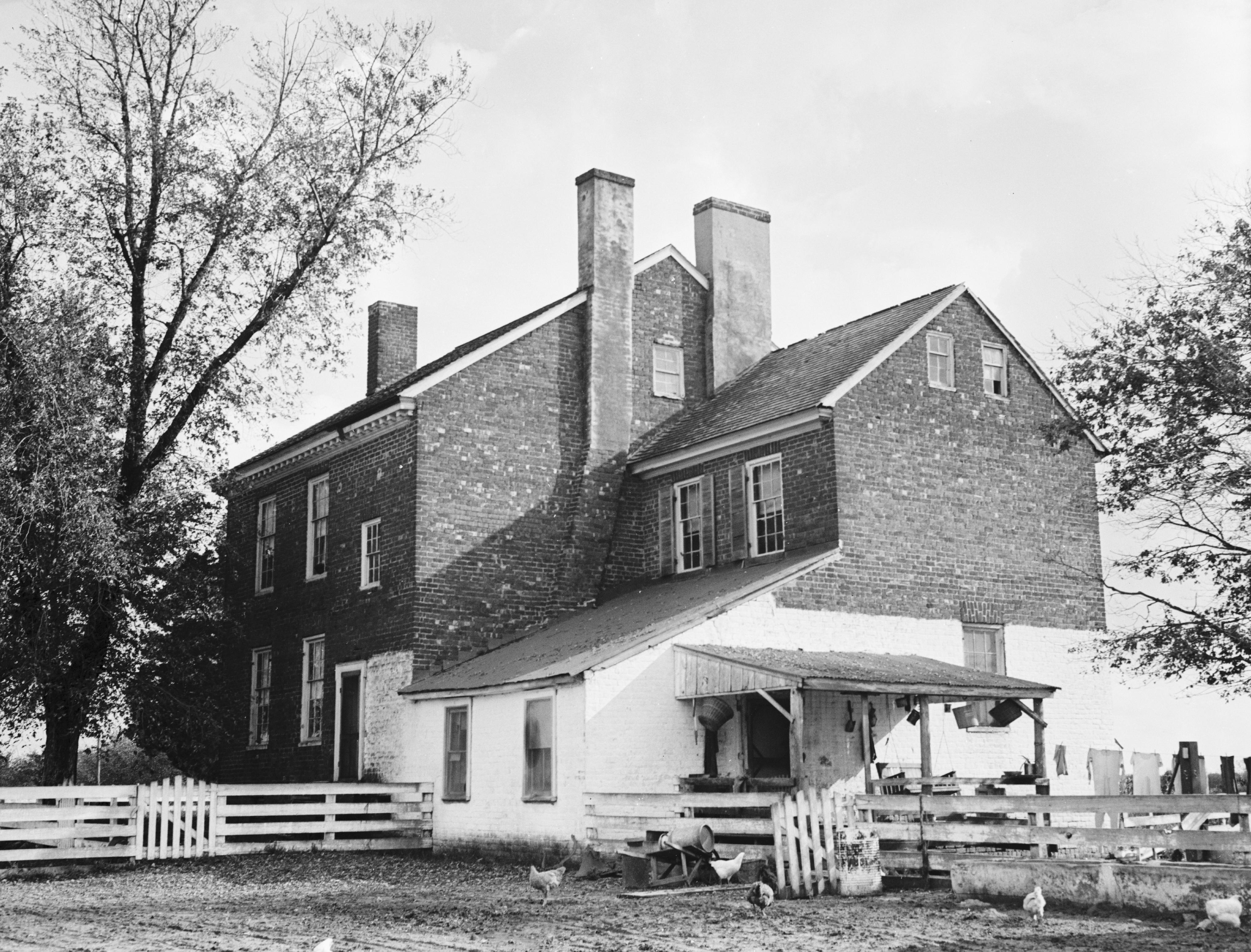 Front and side of the Thomas House, located along Maryland Route 304 north of Ruthsburg in Queen Anne County, Maryland, United States. Built in 1798, it is listed on the National Register of Historic Places.